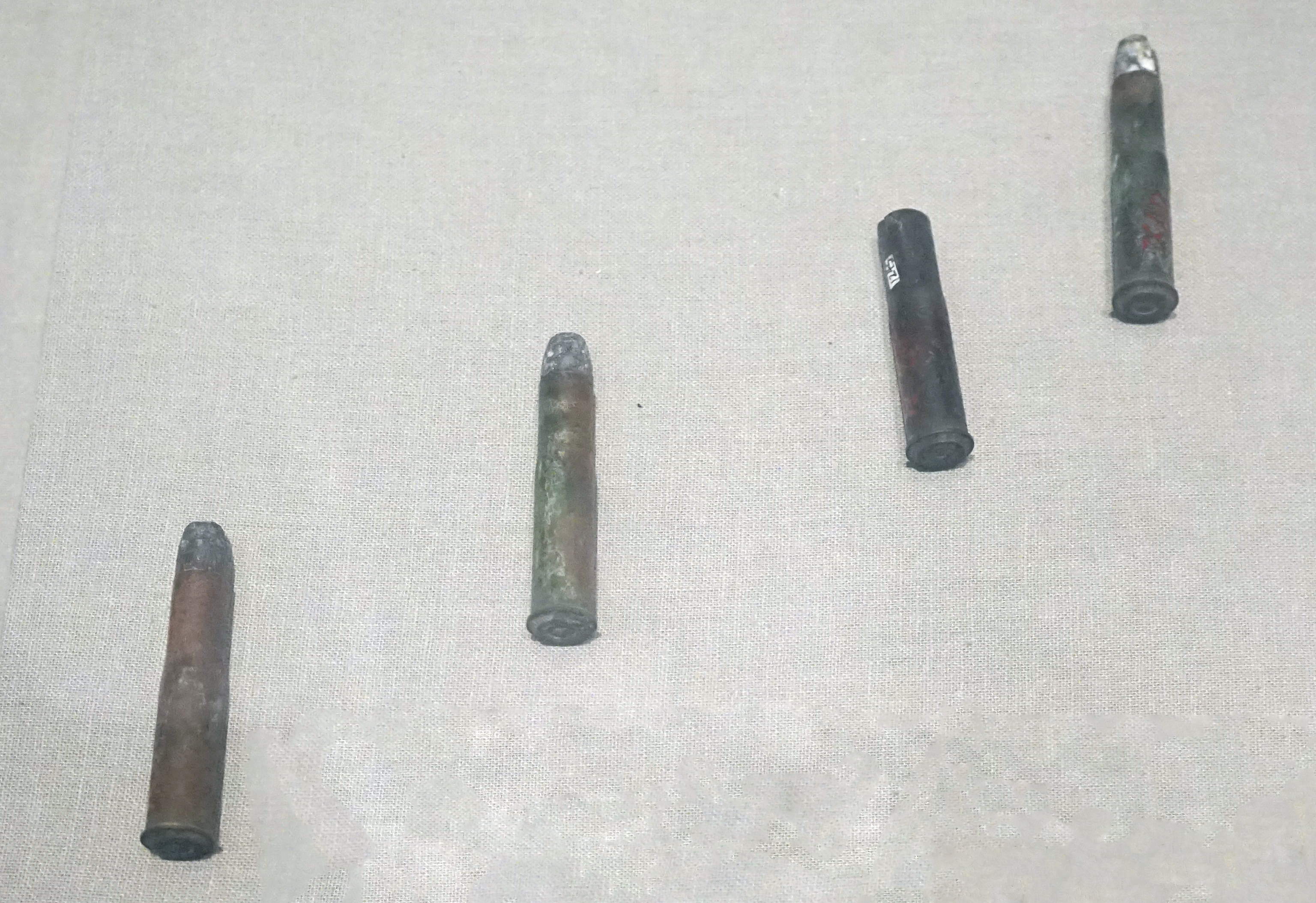 Bullets with the characters of "Jilin" (带有“吉林”字样的子弹). Late Qing Dynasty. Collected from Baliqiao, Daling Forest Management Area, Aihui District. First Grade Cultural Relic.